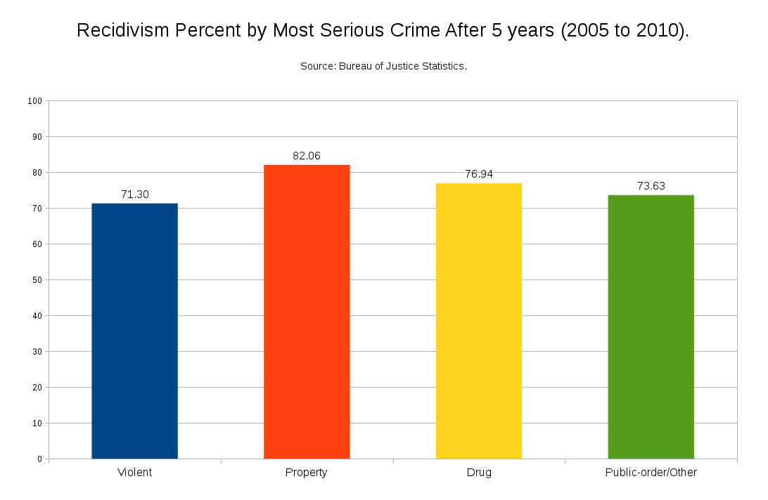 This figure shows recidivism rates in the US from 2005-2010 by the most serious crime committed for the initial imprisonment.